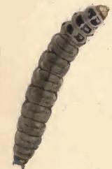 Stainton’s Natural History of the Tineina (1855–1873): Coleophora wockeella